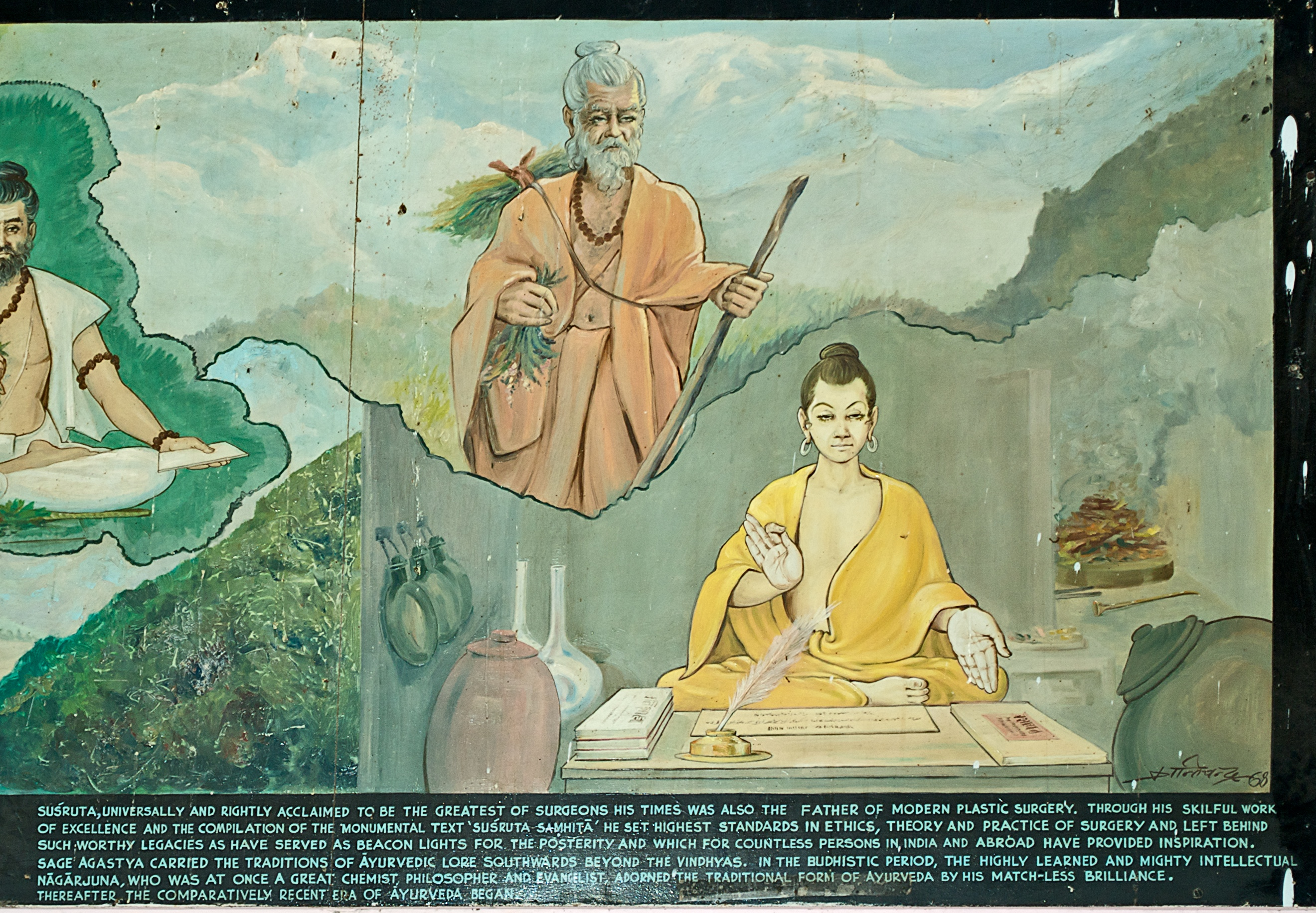 Nagarjuna and Agastya